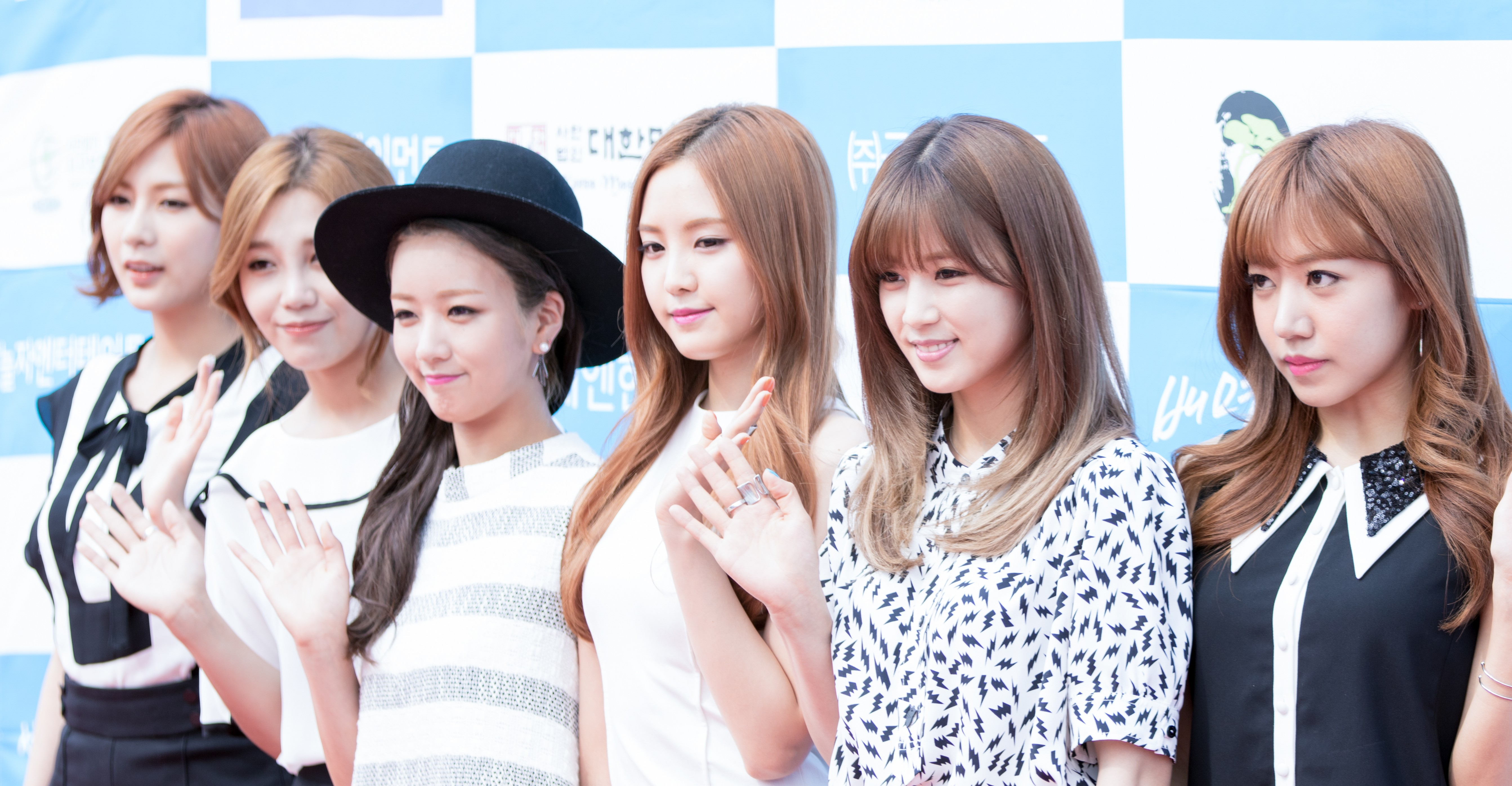 Apink at Hanbitsa Awards, 21 June 2015. Left to right: Hayoung, Eunji, Bomi, Naeun, Chorong and Namjoo